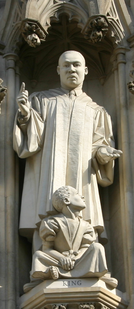 Statue of Martin Luther King, Jr. over the west entrance of Westminster Abbey (Church of England, Anglican Communion). Installed in 1998, sculpted by Tim Crawley.